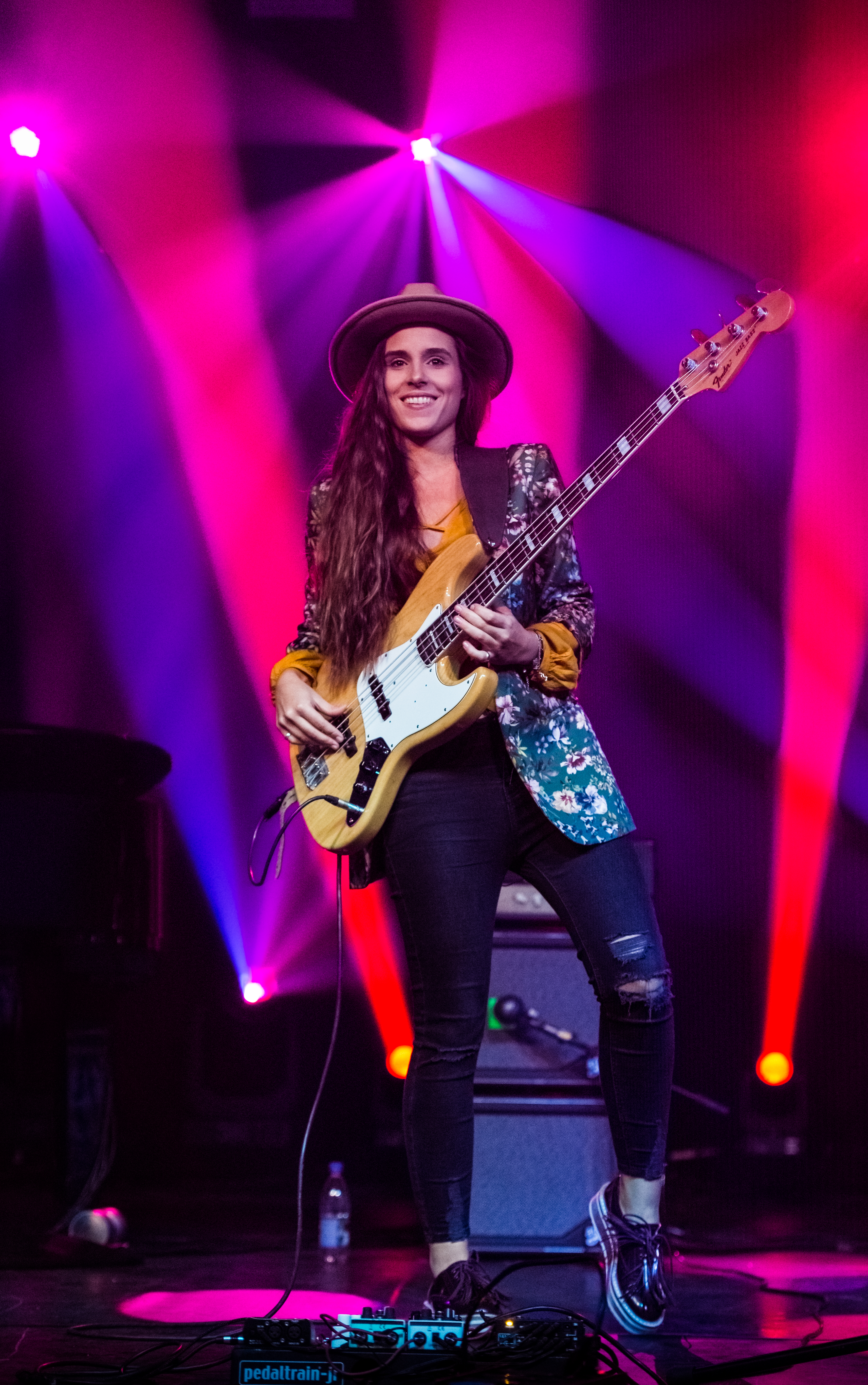 Kinga Glyk - Leverkusener Jazztage 2017